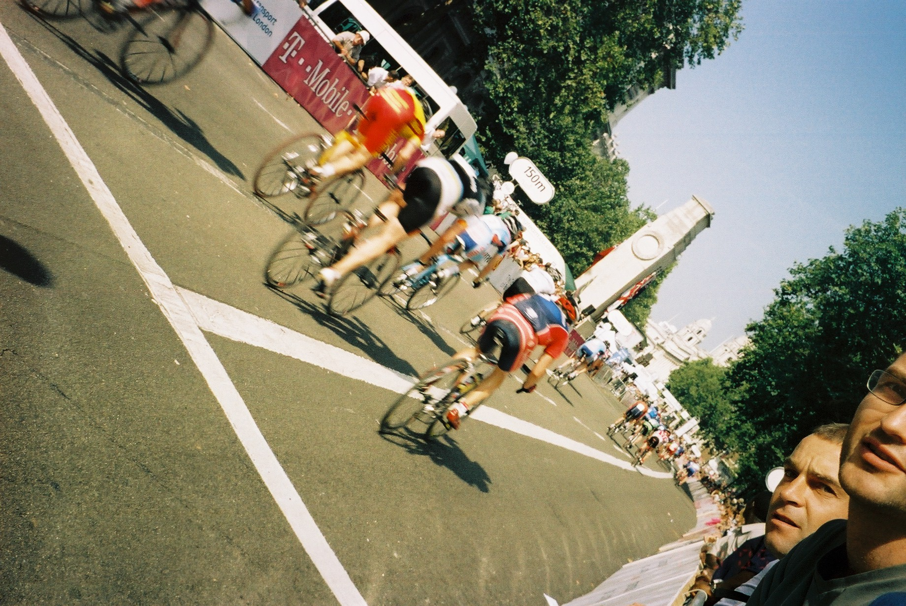 The final stage of the Tour of Britain in Westminster, London 2005.